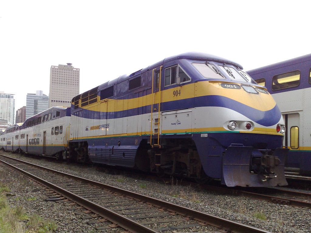 West Coast Express F59PHI Locomotive #904 in Downtown, Vancouver 中文（香港）: 西岸快車 F59PHI型柴油機車 (904號)